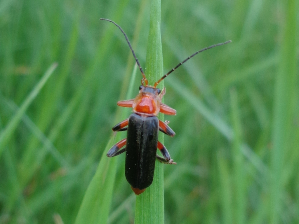 Cantharis livida. Found in Rīga town, Latvia